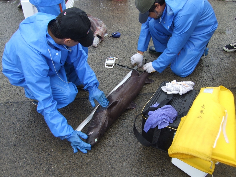 Kitefin shark (Dalatias licha) caught off Japan